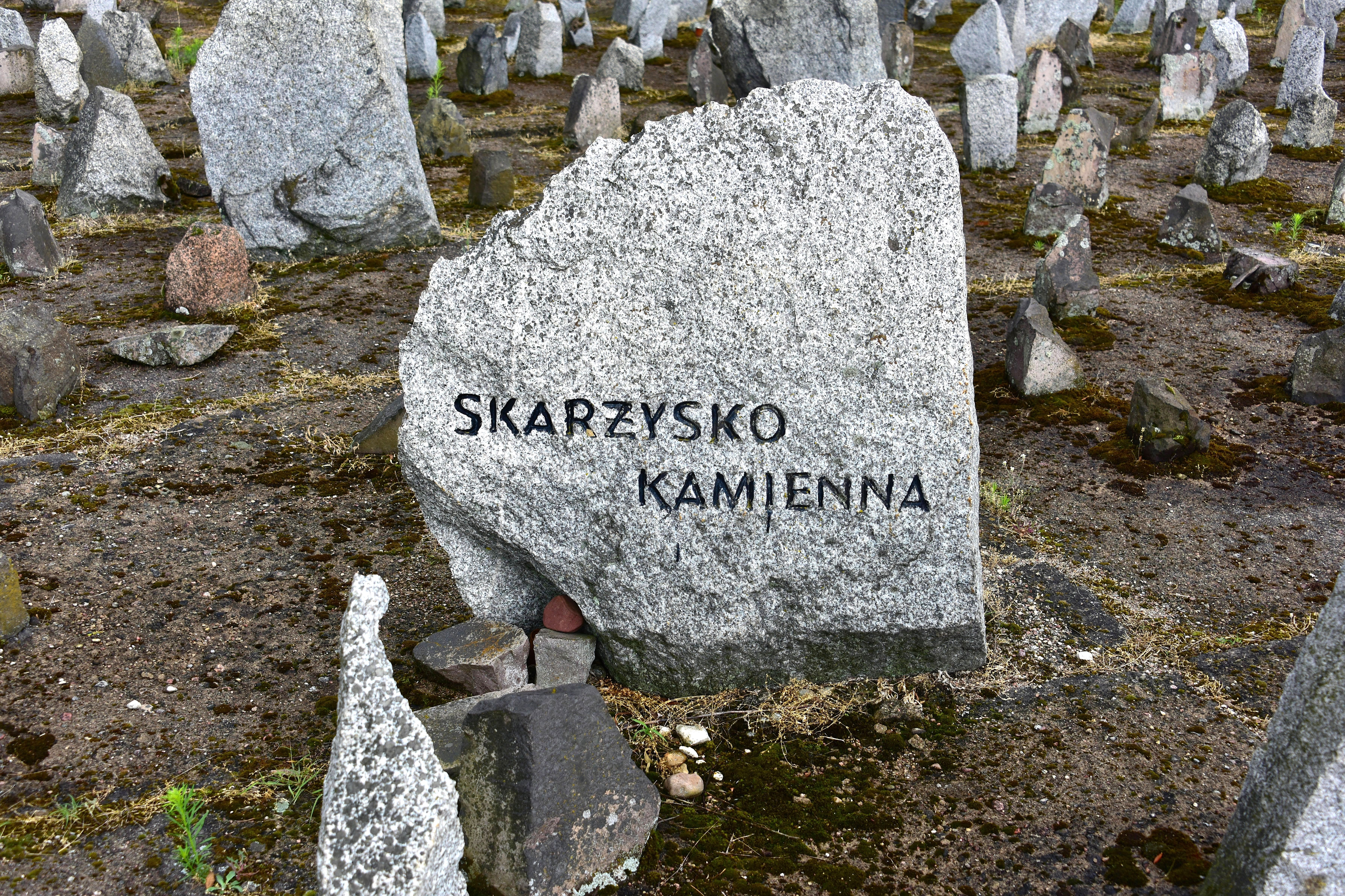 Treblinka death camp memorial. A stone commemorating the murdered Jews from Skarżysko-Kamienna